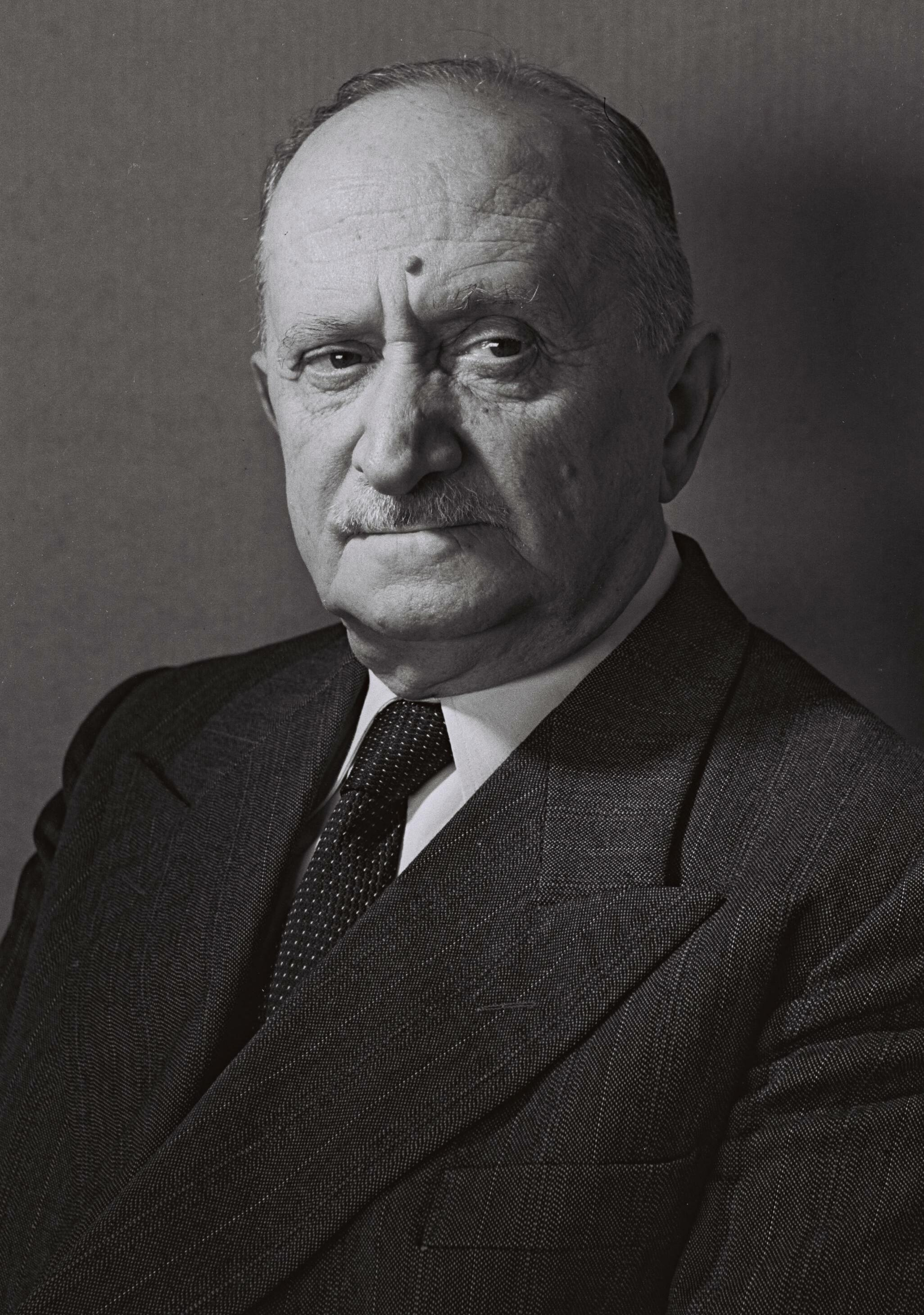 MR. ABRAHAM REKANATI, MEMBER OF 1ST KNESSET.